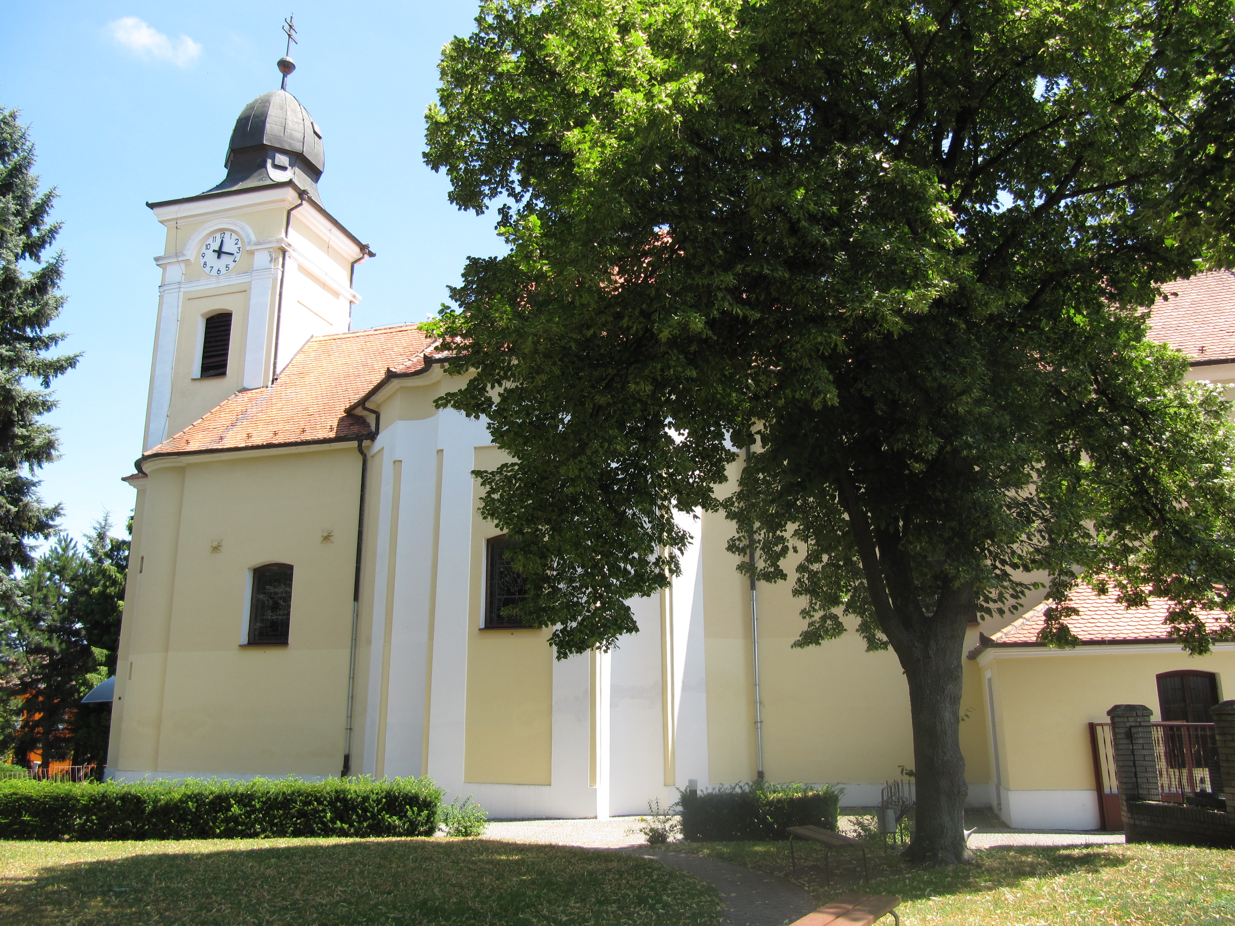 Prušánky in Hodonín District, Czech Republic. Church of St. Isidore. This photograph was taken within the scope of the third year of the 'Czech Municipalities Photographs' grant.